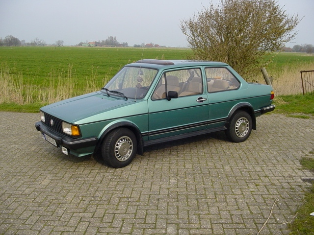 A 1982 Volkswagen Jetta Diesel, German spec. Photo taken by . Author has allowed it to be licensed under Creative Commons Attribution 2.5.